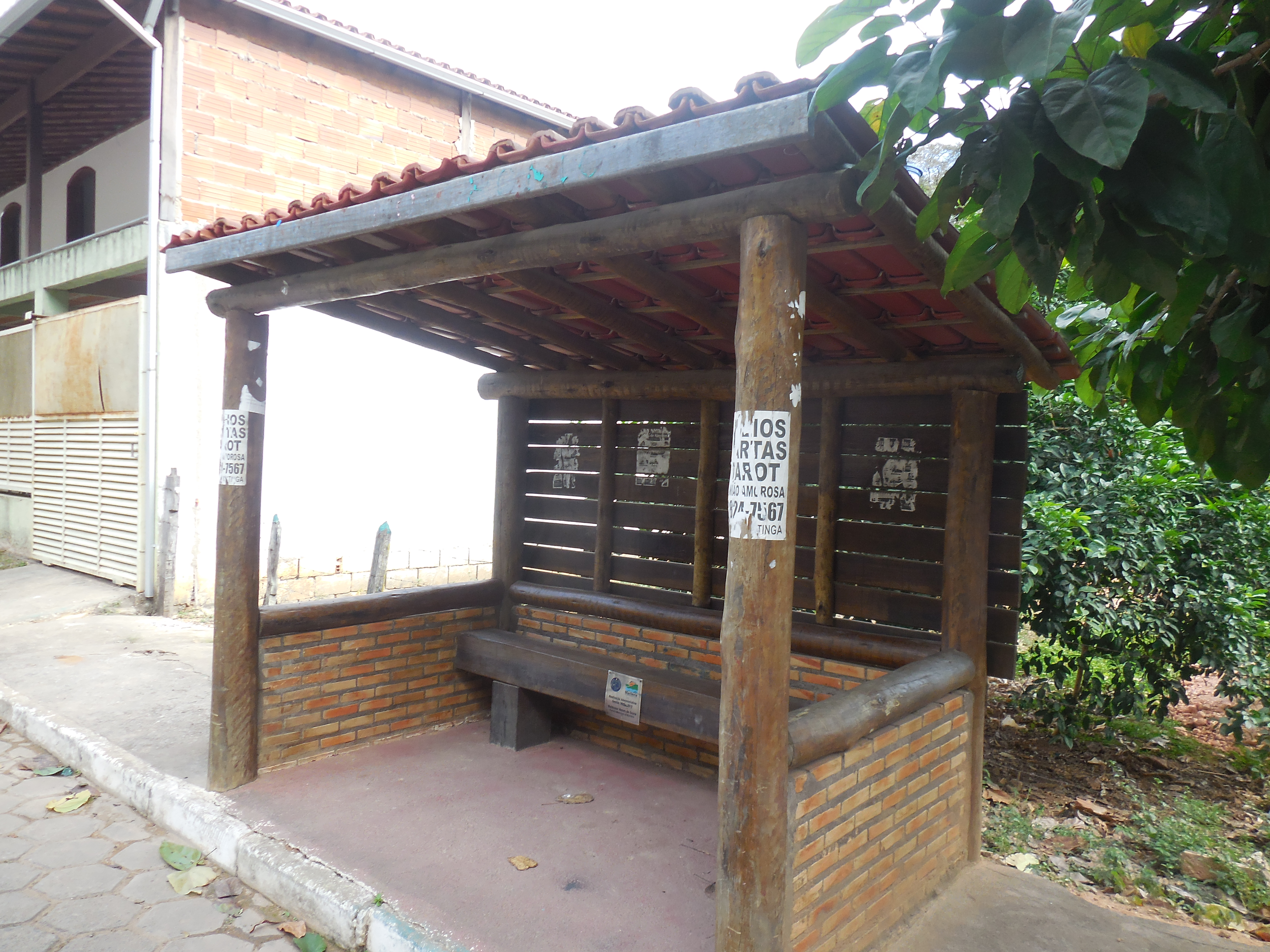 A bus stop in Marliéria, Minas Gerais, Brazil.